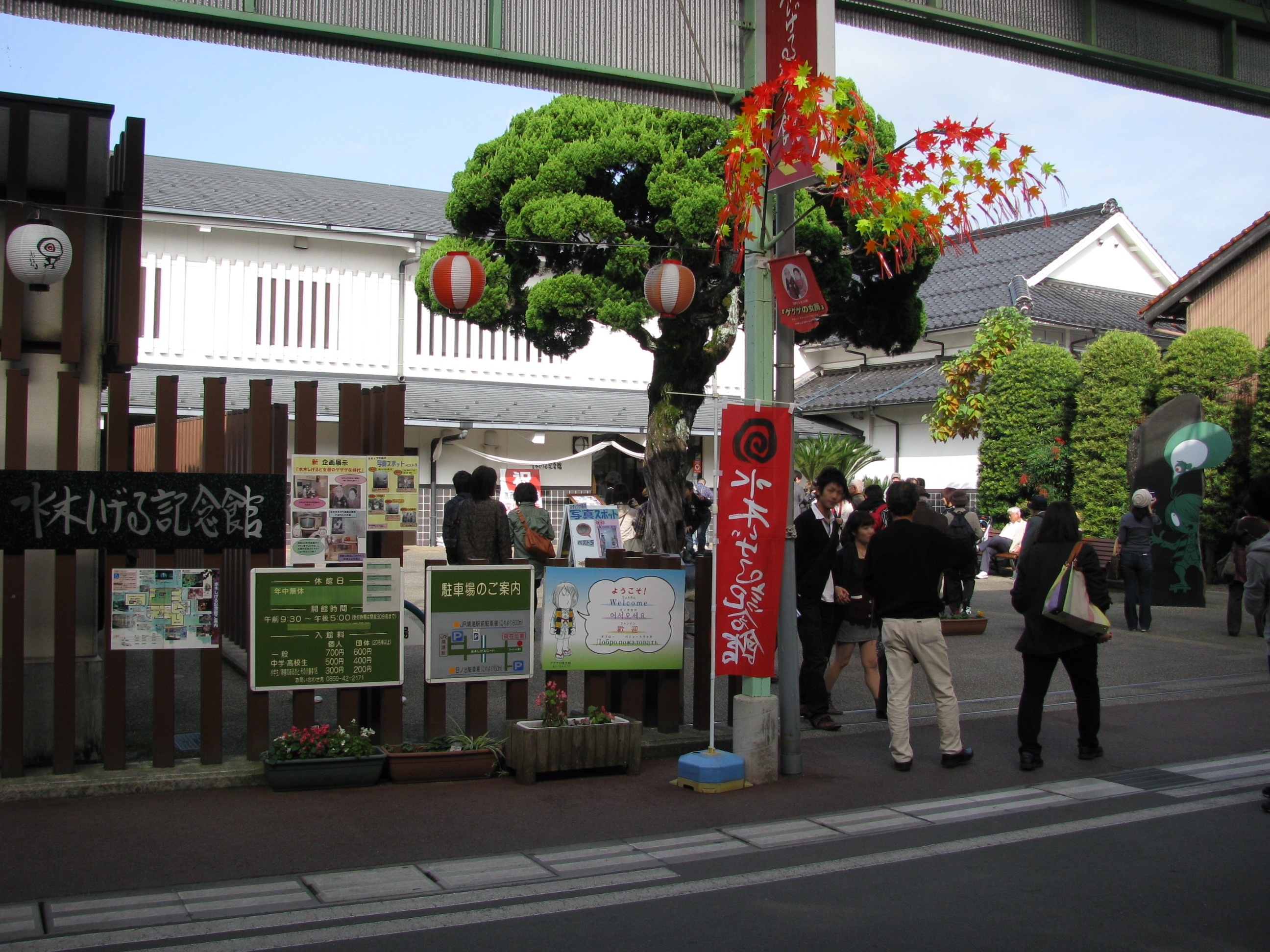 The Mizuki Shigeru Museum. This place is Sakaiminato, Tottori Prefecture, Japan.